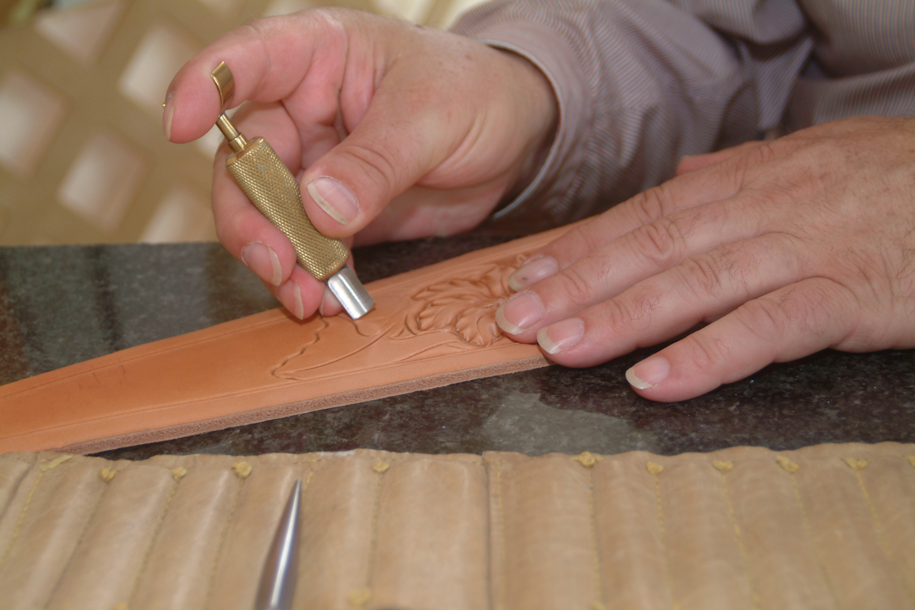 Description: Alberta saddlemaker Chuck Stormes works on part of a saddle at the 2006 Smithsonian Folklife Festival on the National Mall. Creator/Photographer: Lindsey Turnbow Medium: Digital photograph Culture: Canadian Geography: USA Date: 2006 Repository: Rinzler Folklife Archives and Collections Accession number: 2006-18396